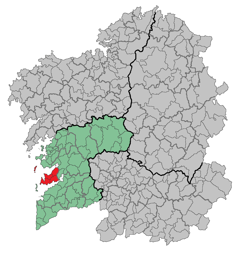 Region of Galicia (Spain) Based in: Image:Location of Betanzos.png Source: Designed by Leoplus. Original picture, designed by Caiser over a work made by Alyssalover.